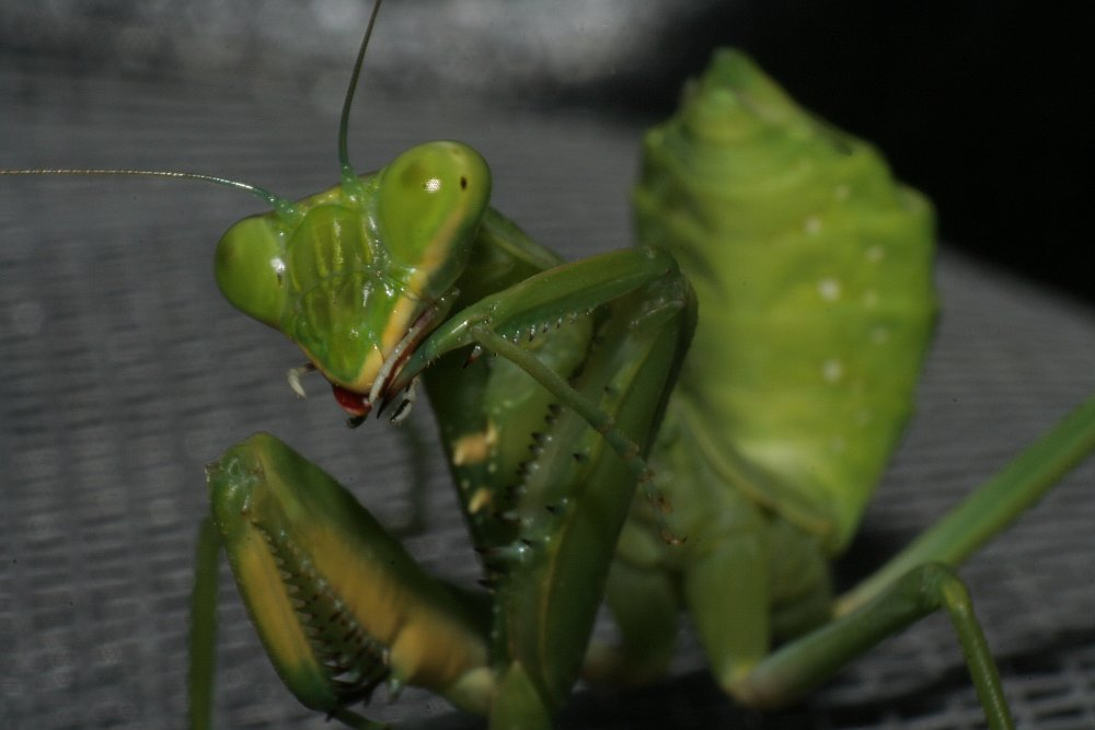 (CC-BY/-SA license) Sphodromantis viridis image from [1] Flickr photo by Álvaro Rodríguez